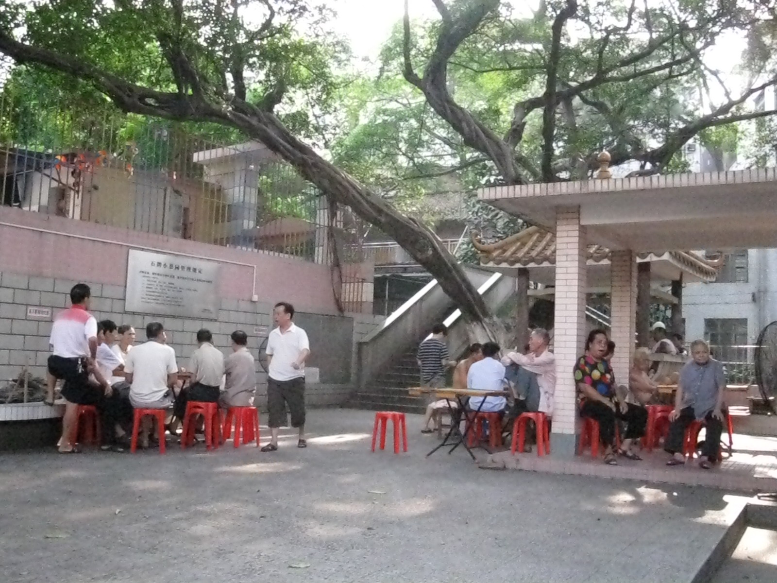 Shelter garden, Shipai Village, Guangzhou, China